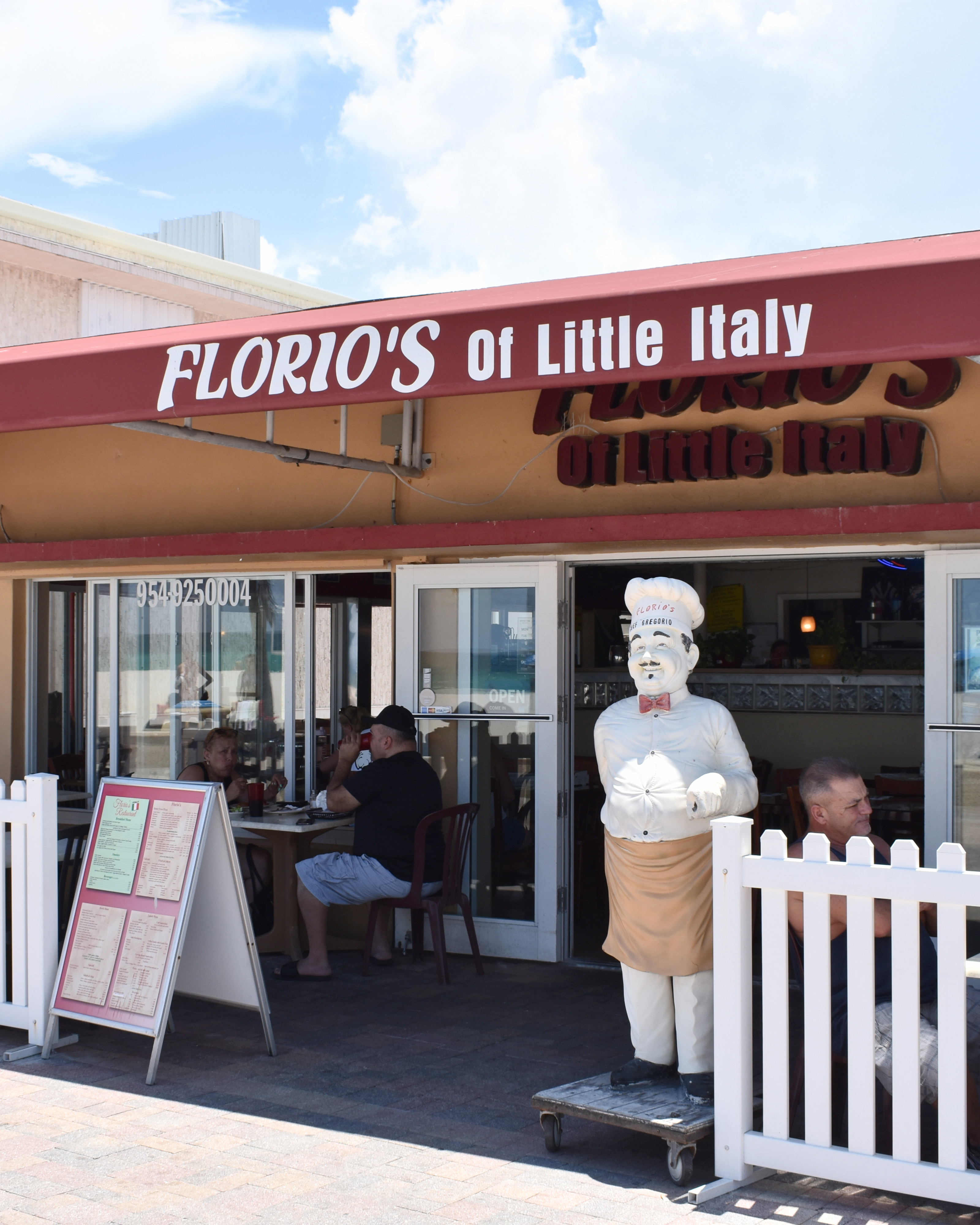 Hollywood Beach boardwalk